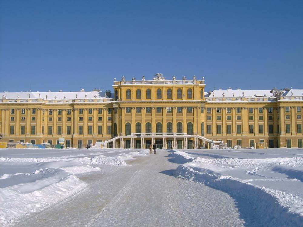 Austria, Vienna, Schönbrunn Palace